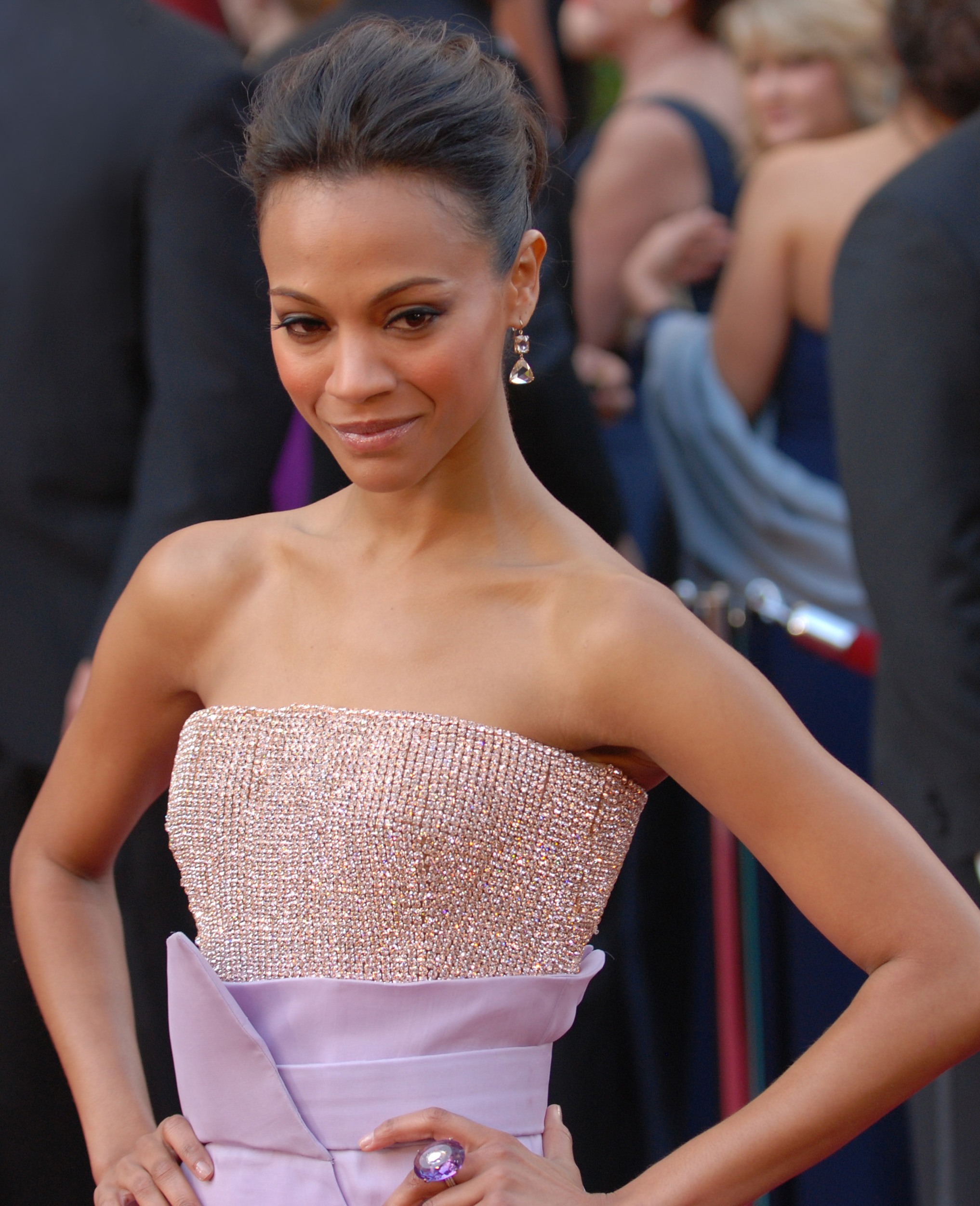 Zoe Saldana, Neytiri from "Avatar", arrives at the 82nd Academy Awards.